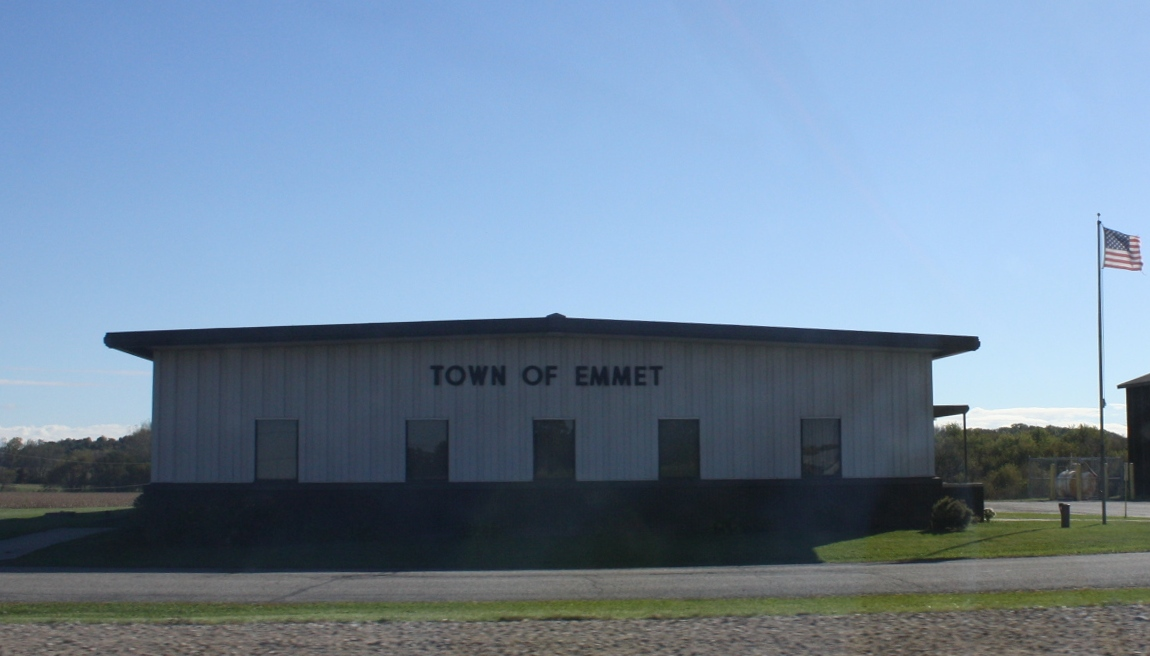 The town hall for Emmet, Dodge County, Wisconsin along Wisconsin Highway 26.